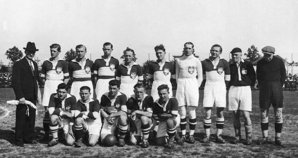 Team of the Polish Football Union in France (1939)